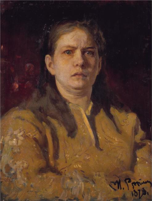 Portrait of Valentina Serova. Study for the picture Grand Duchess Sofia at the Novodevichy Convent (1698)